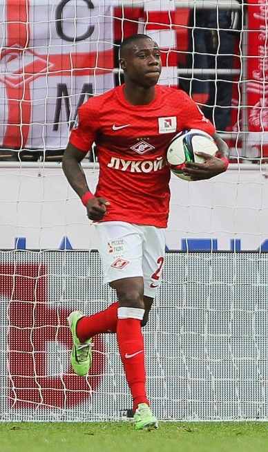 Quincy Promes